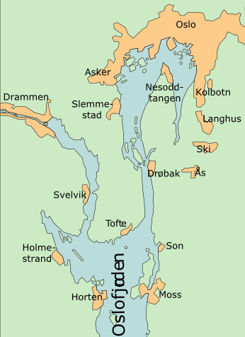 Map of the inner 2/3 of Oslofjord. This map is a selection, with added text, based on a map by Finn Bjorklid.